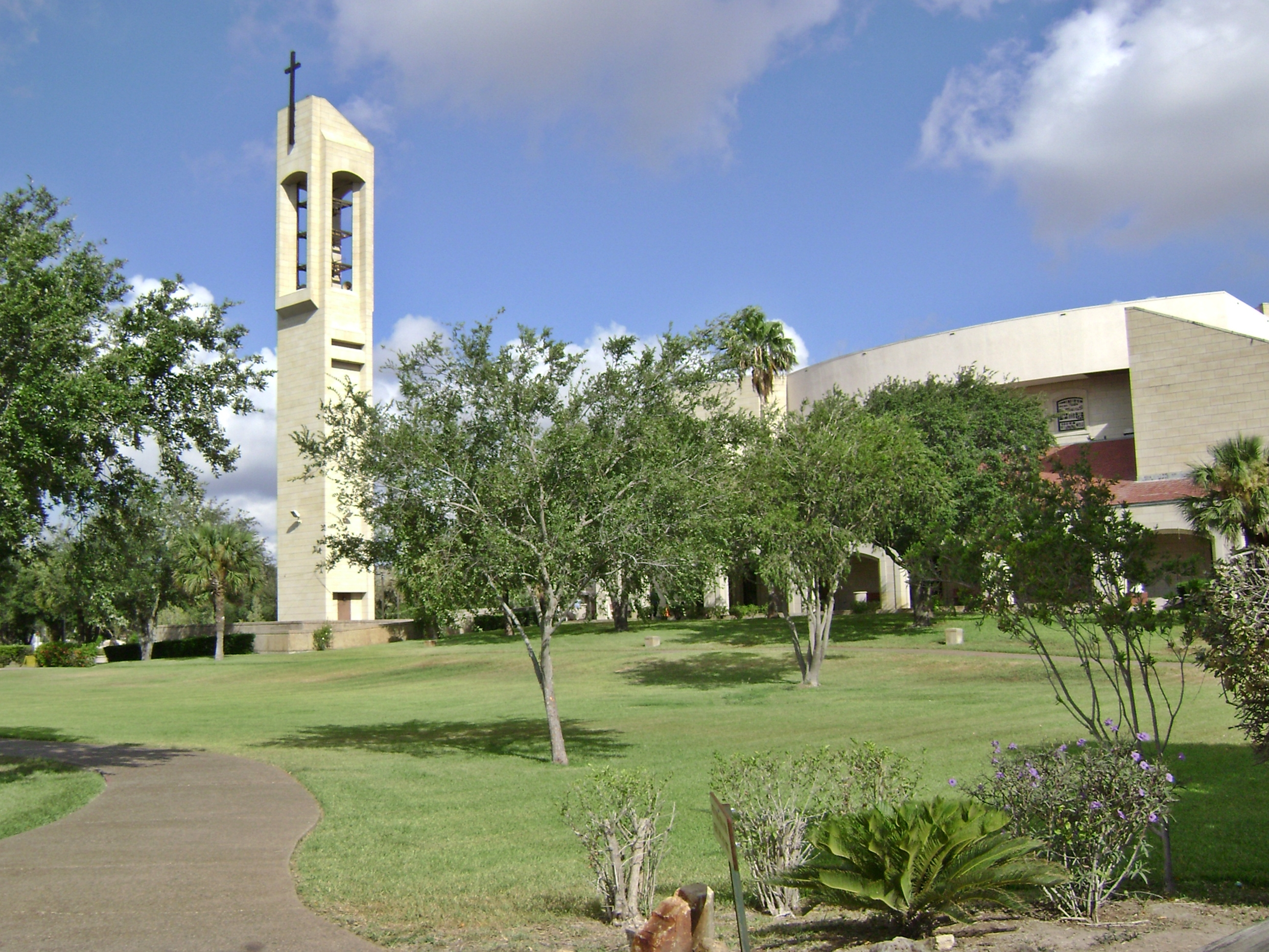 Virgin de San Juan Church in San Juan, Texas